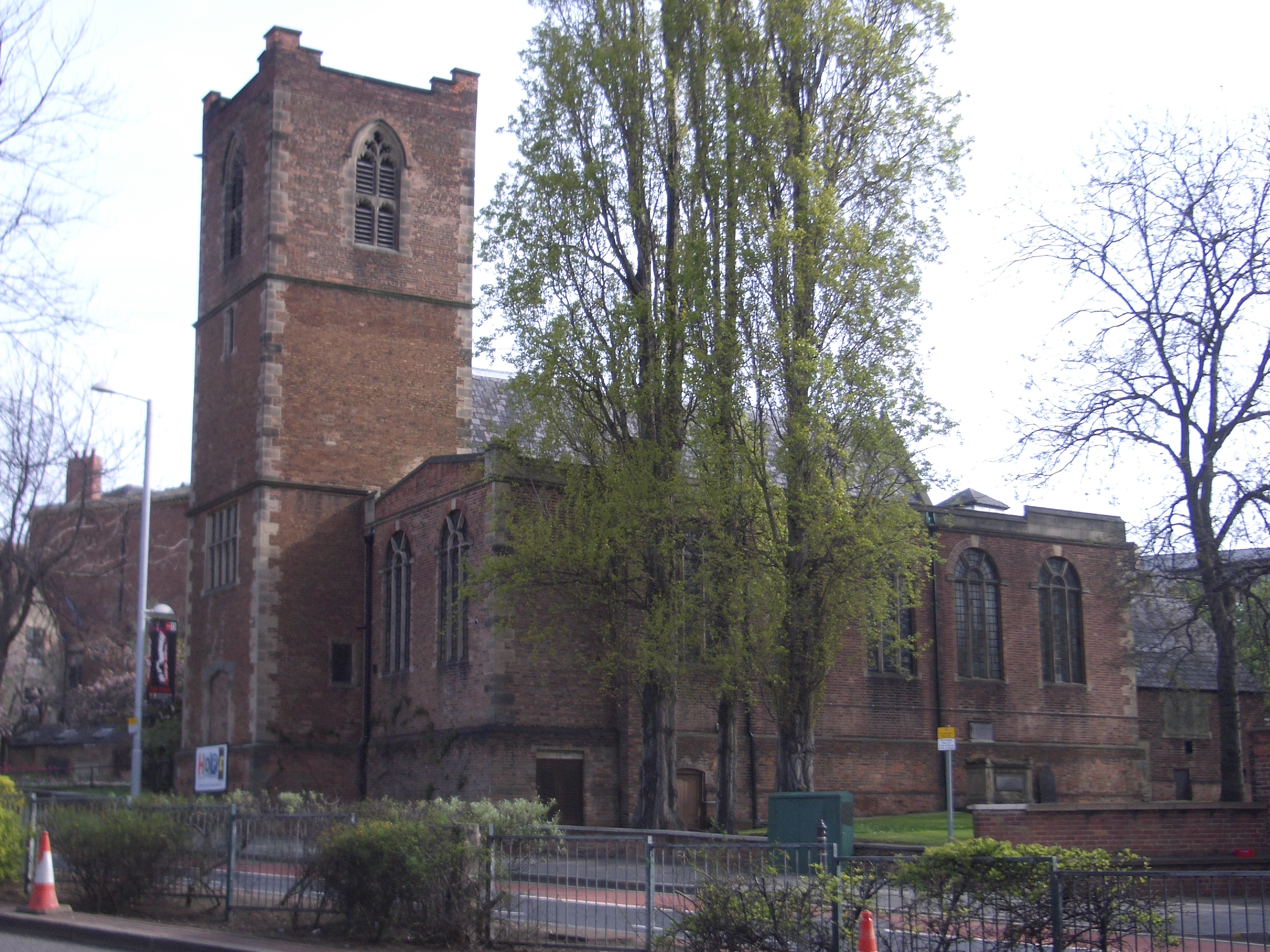 St Nicolas Nottingham ?